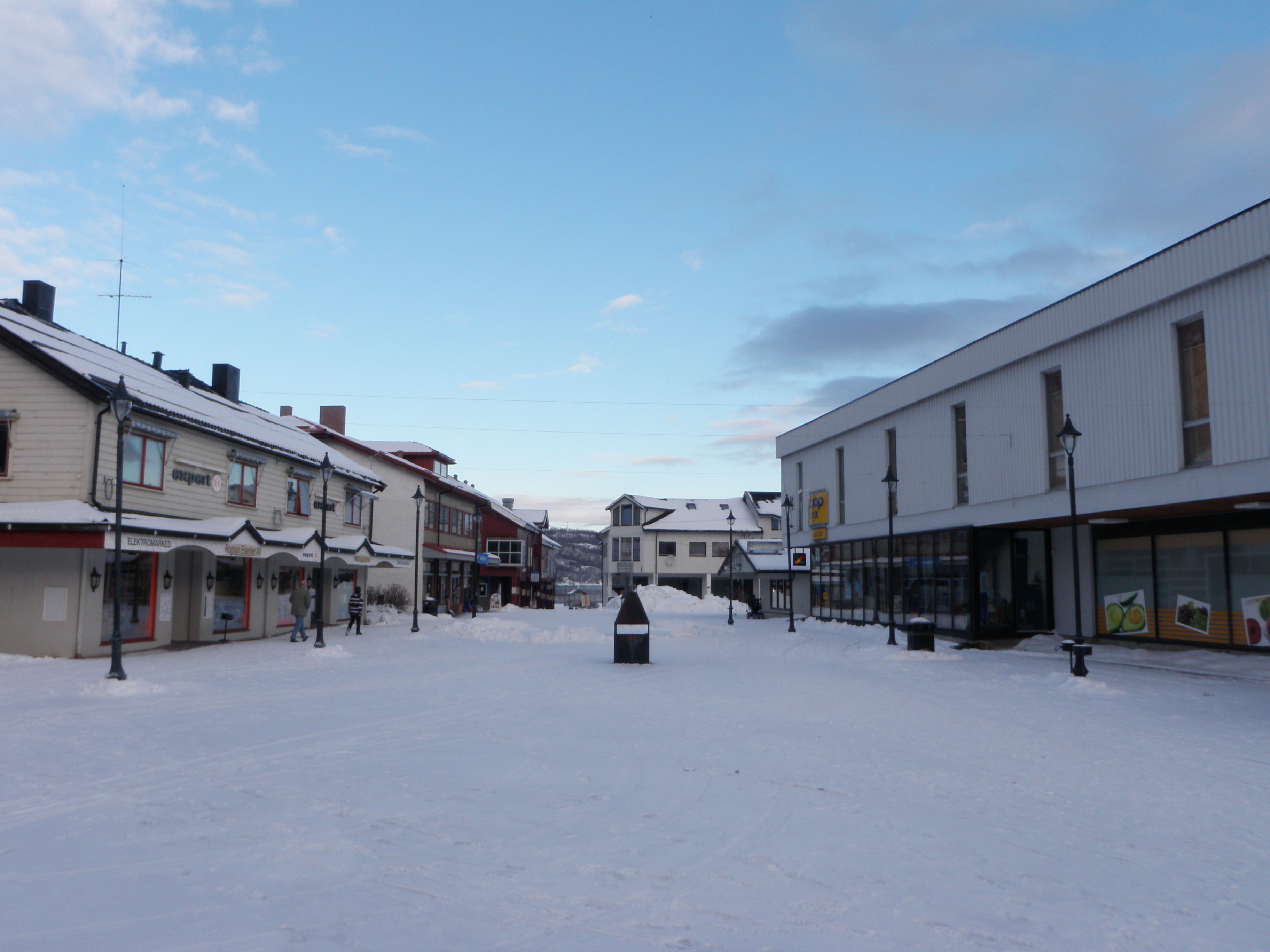 Pedestrian zone in the street Jernbanegata in the village of Rognan in Saltdal, Nordland, Norway.